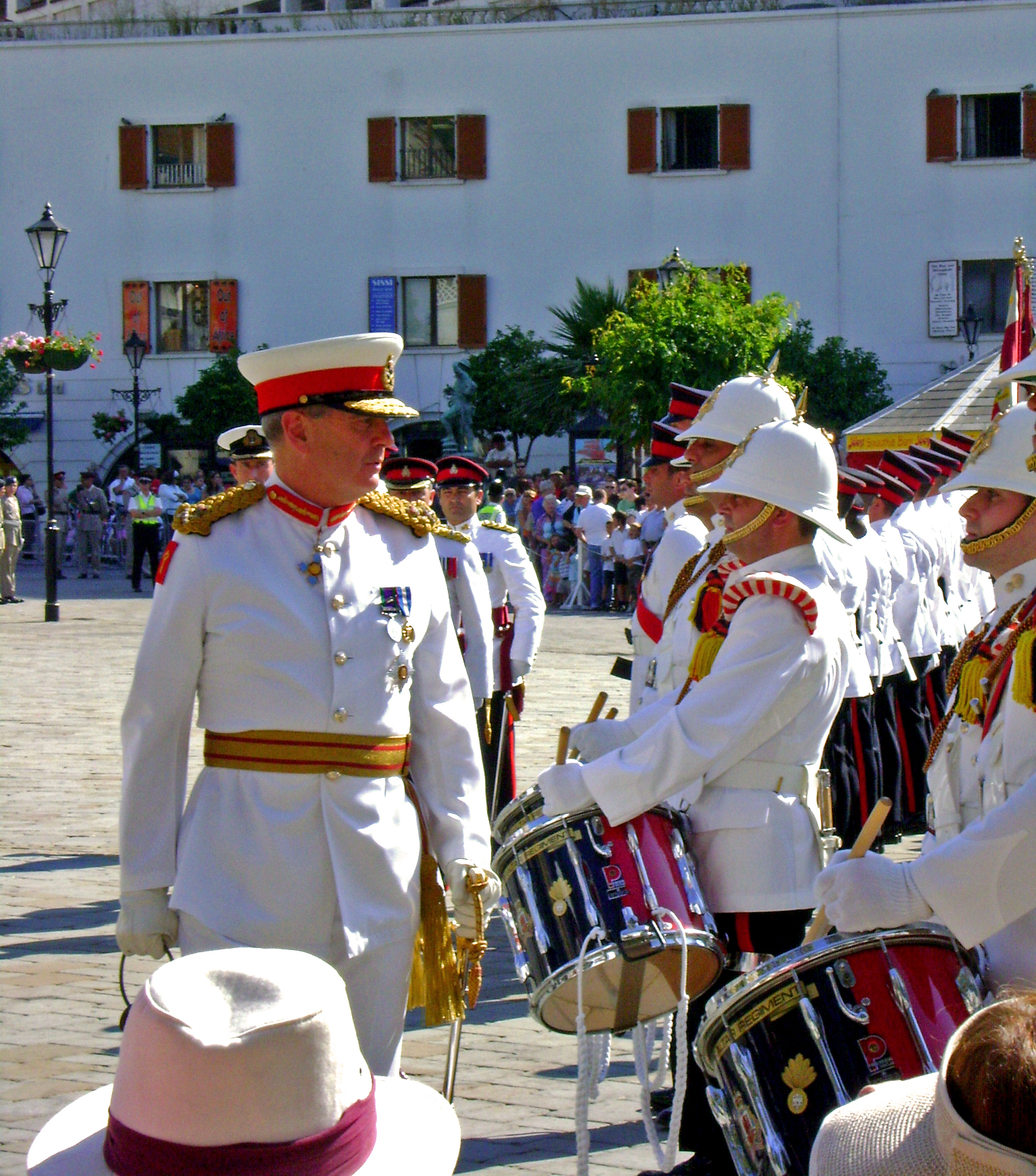 Lieutenant General Sir Robert Fulton, Governor of Gibraltar between 2006 and 2009 inspects the elements of a military parade in Casemates Square.